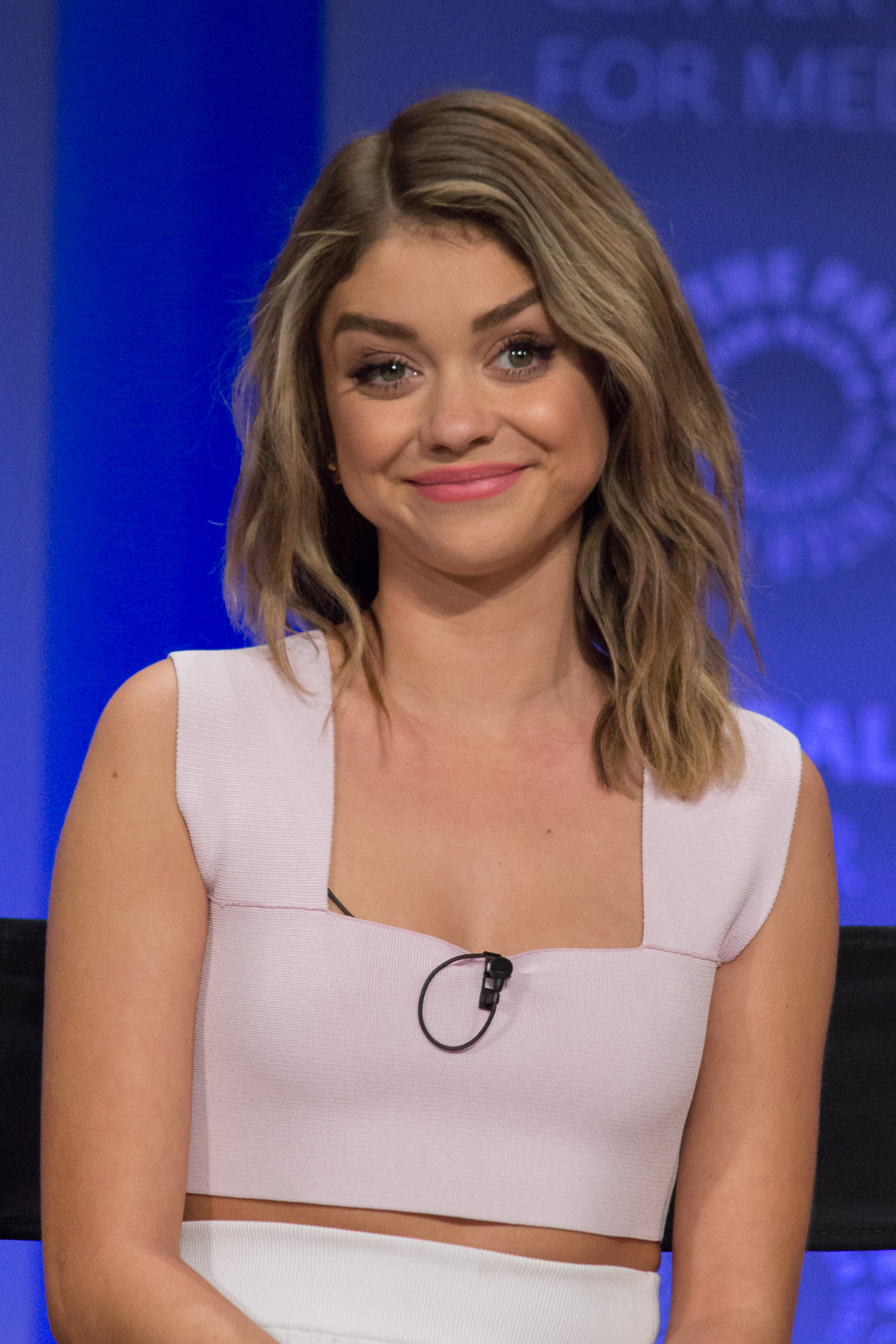 Actress Sarah Hyland at the 2015 PaleyFest for the show "Modern Family"